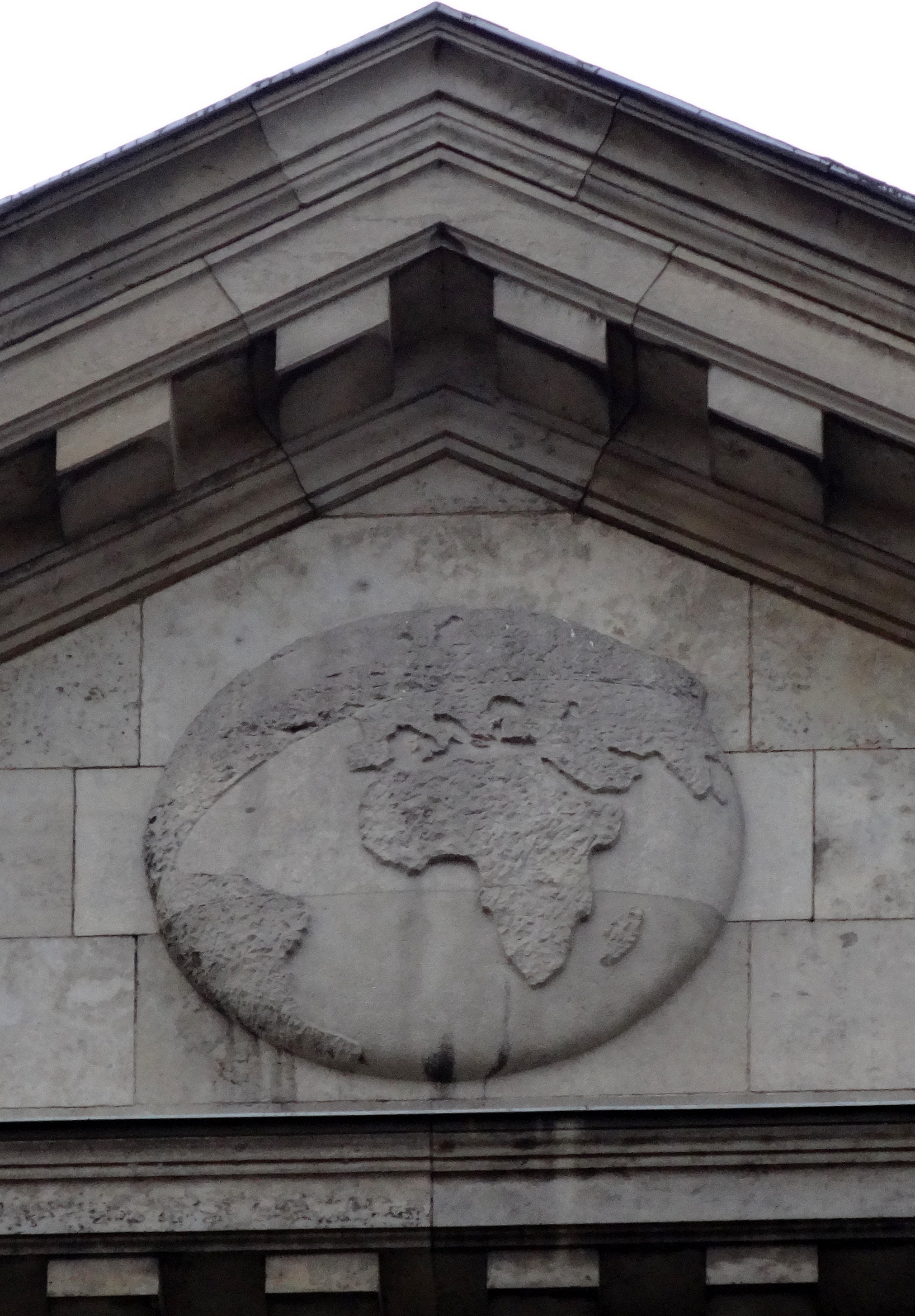 Wikimedia Deutschland offices